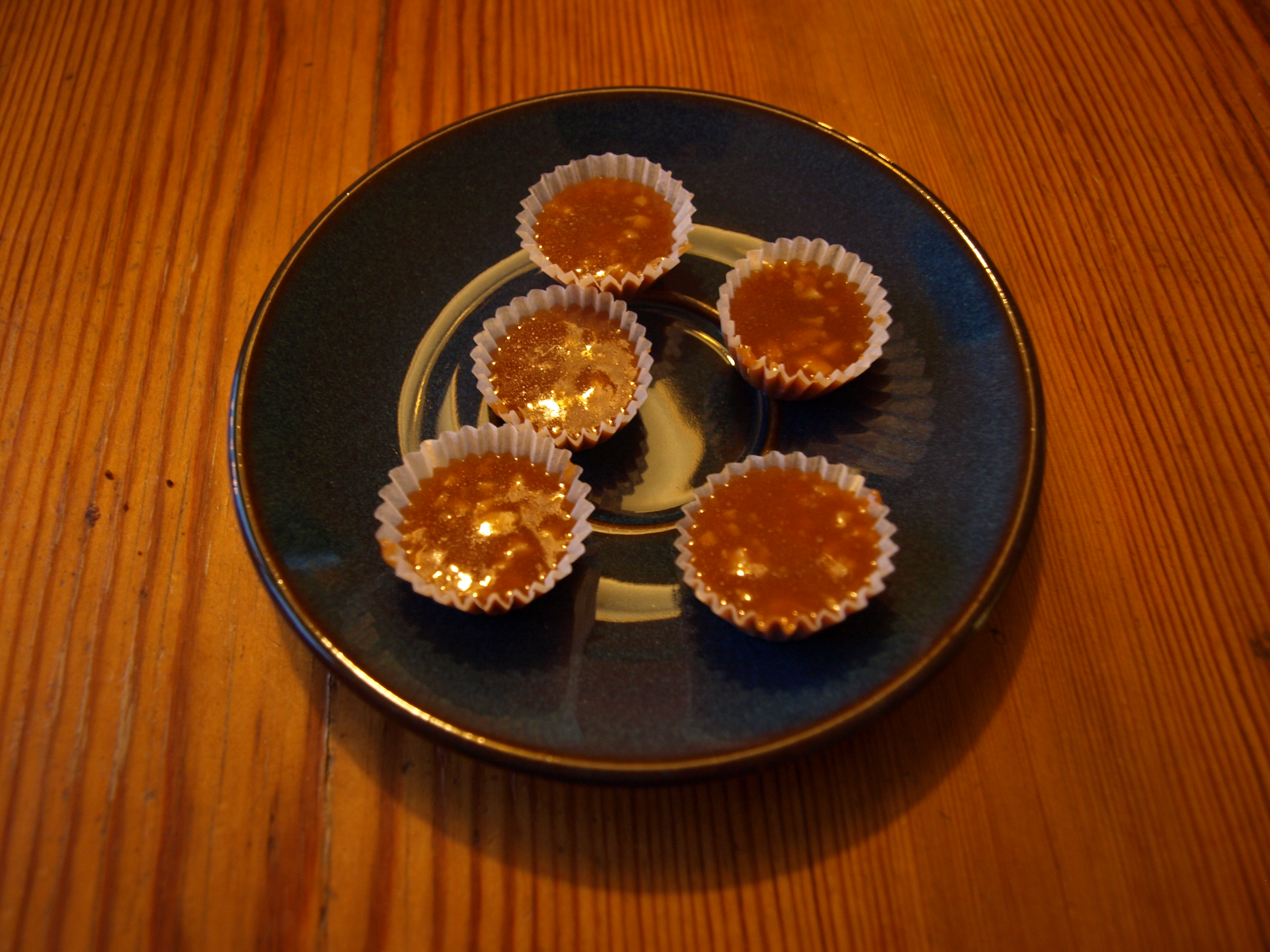 The swedish toffee "knäck".